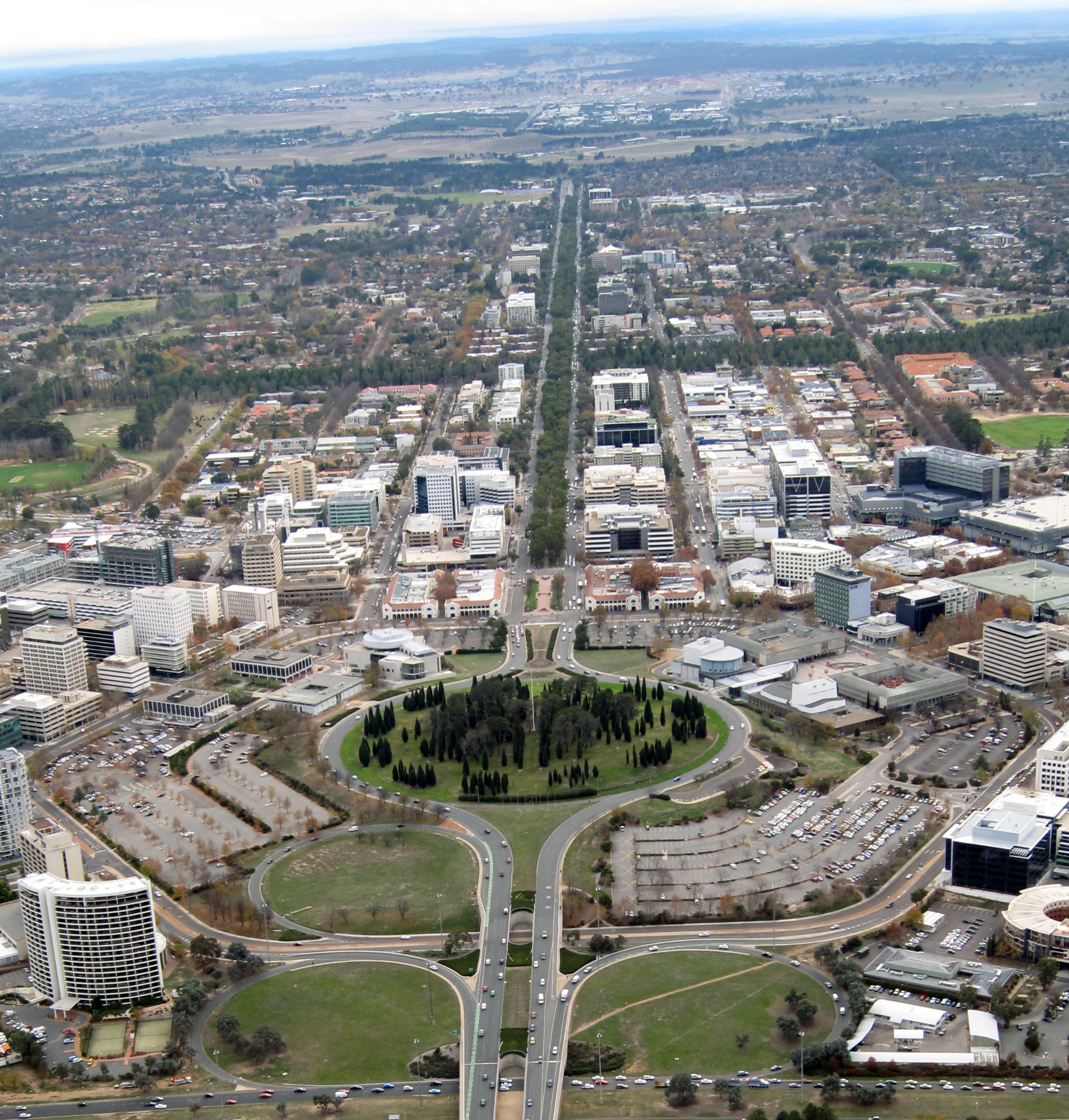 Aerial view of Northbourne Avenue looking north from Civic. City Hill and the Vernon Circle are in the foreground. In the right of the photo are the buildings of ACT Legislative Assembly, Canberra Museum and Gallery, Canberra Theatre and the Civic Library around Civic Square at London Circuit.